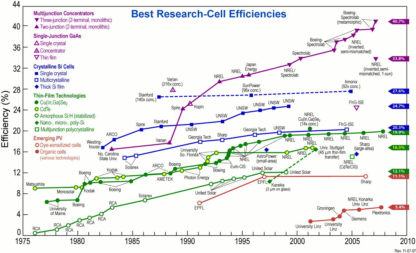 Lawrence Kazmerski, Don Gwinner, Al Hicks, 11/11/07